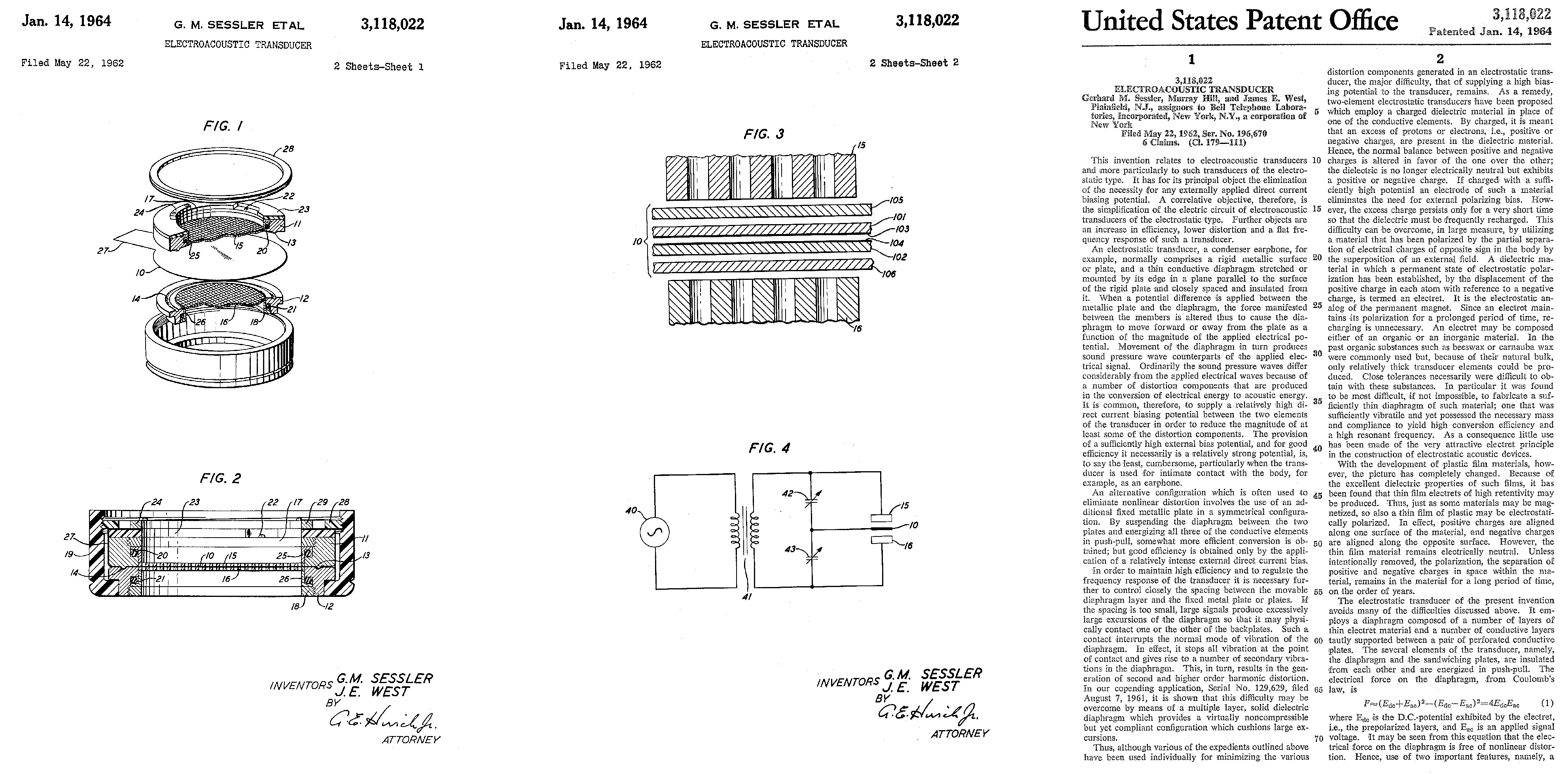 United States patent 3118022 of first foil electret microphone (electroacoustic transducer), invented by G. M. Sessler and J. E. West at Bell Laboratories in 1962.